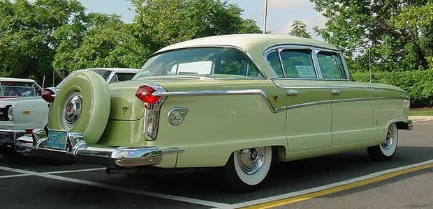 1956 Ambassador by Nash Motors. Stunning four door sedan - rear view.